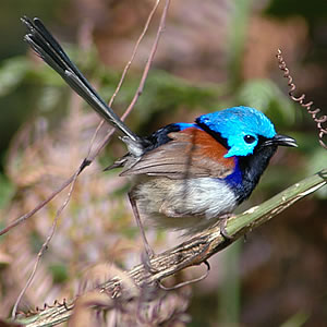 Bird, Variegated Fairy-wren, Malurus lamberti